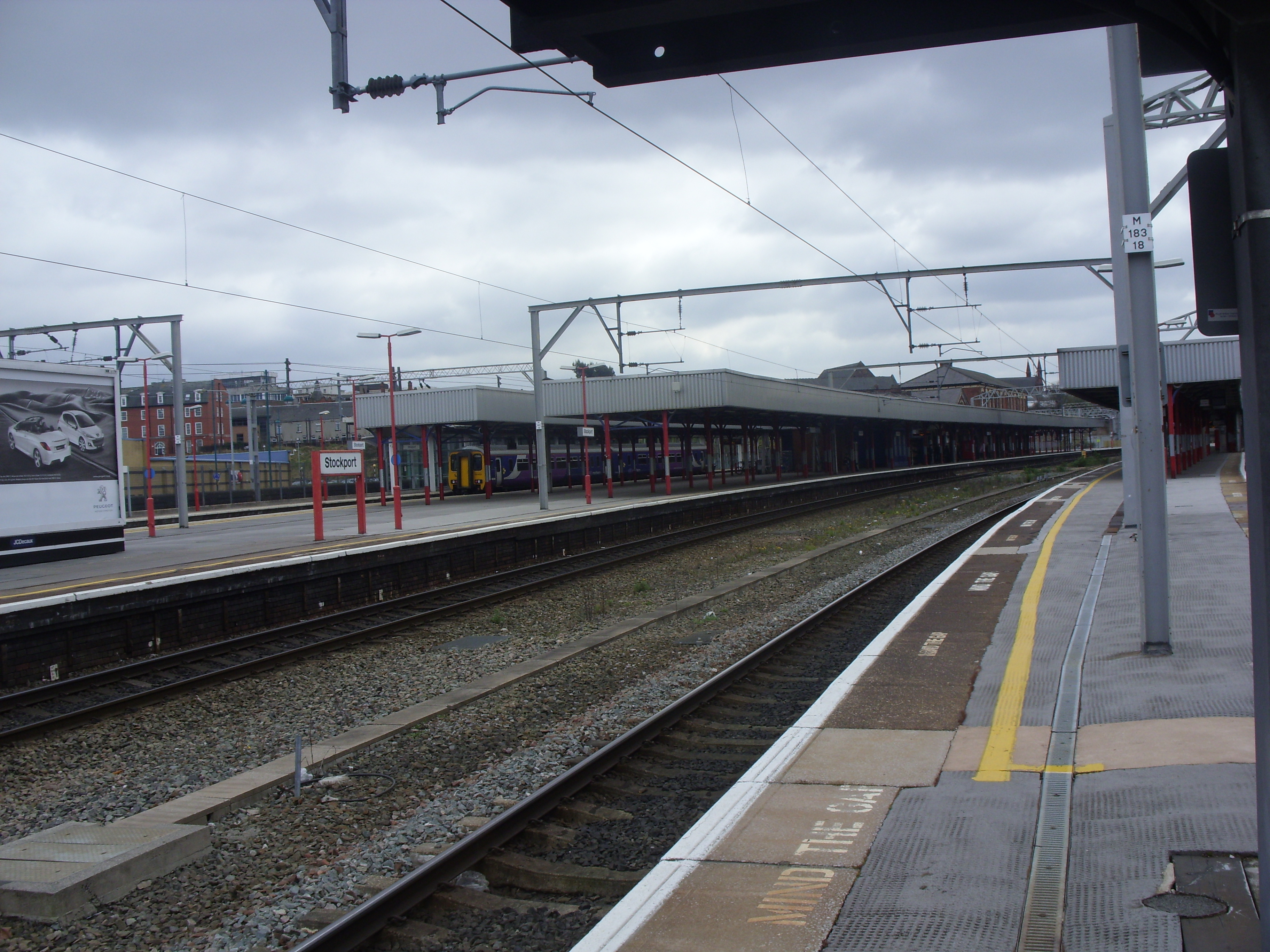 Platforms 2 and 3 at Stockport station. This photo was taken in 2010. These are the main inter-city platforms.